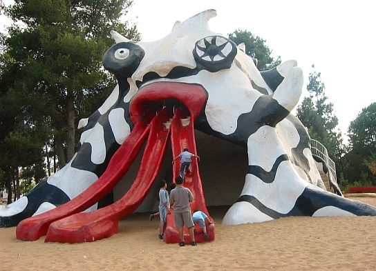 Photo by Gila Brand. This is my own work. Monster Slide by Niki de Saint Phalle in Rabinovich Park, Kiryat Hayovel, Jerusalem